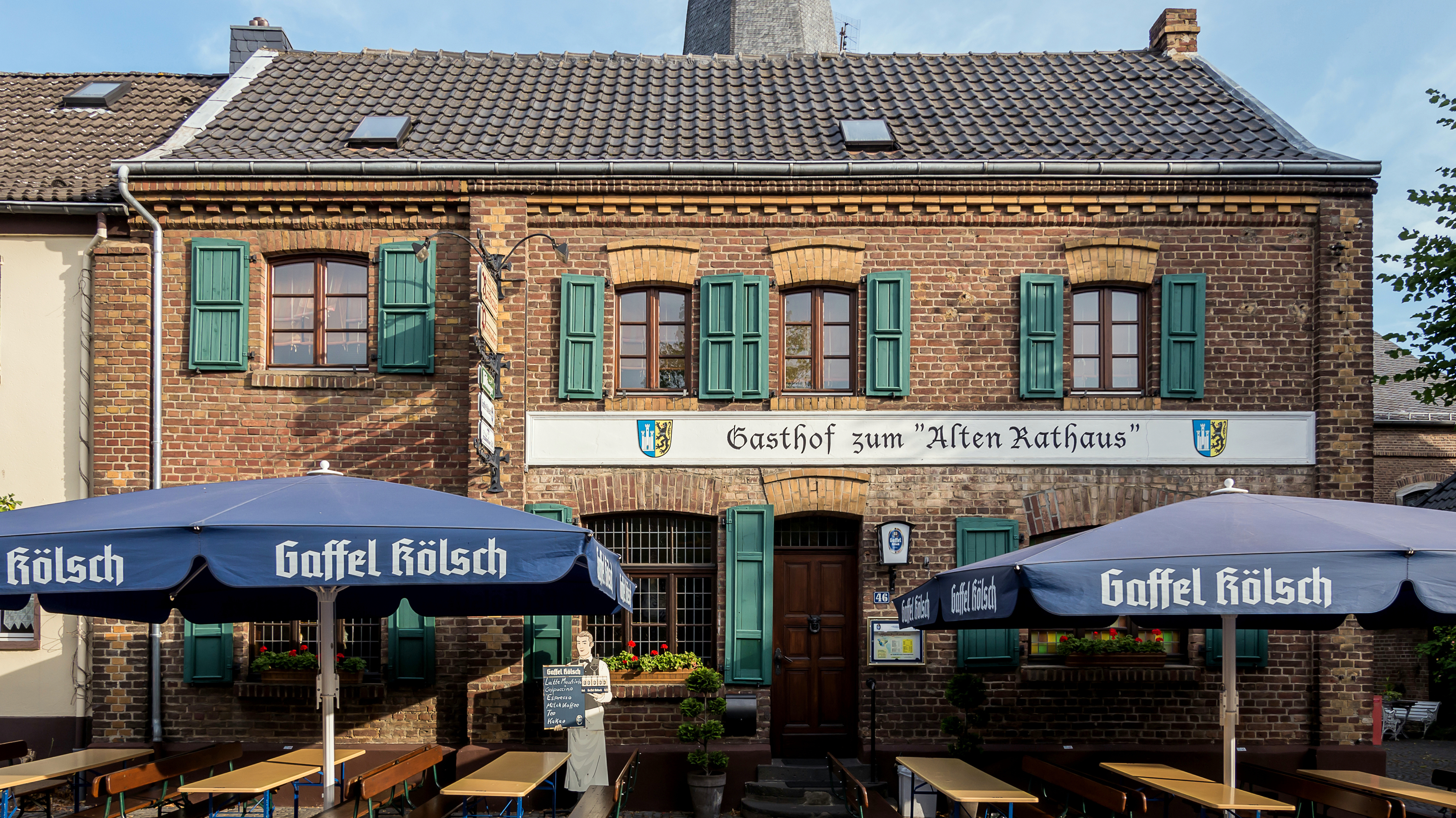 Kaster - Hauptstraße 46 Gaststätte "Zum Alten Rathaus",Alt-KasterThis is a photograph of an architectural monument., no. 18